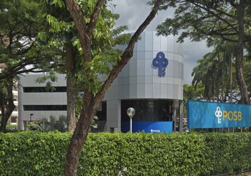 Photo of POSB Newton Branch